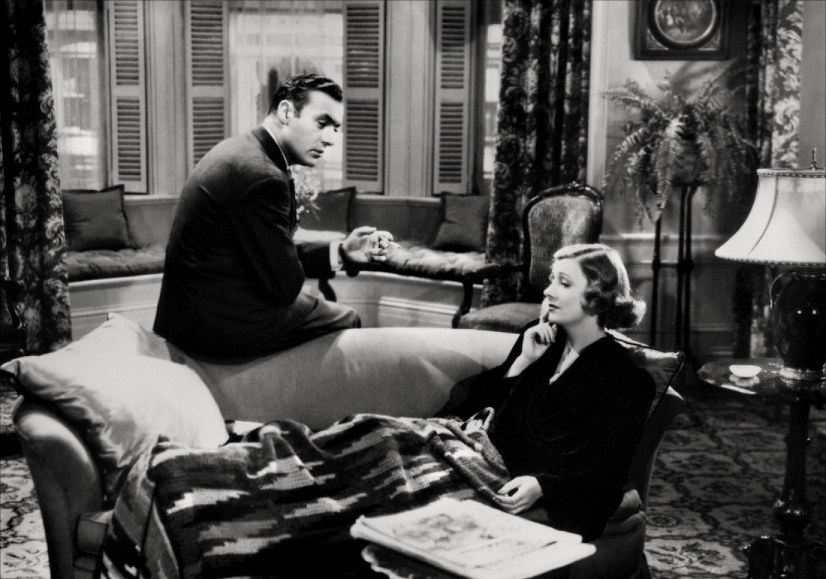 Charles Boyer & Irene Dunne in Love Affair - cropped screenshot